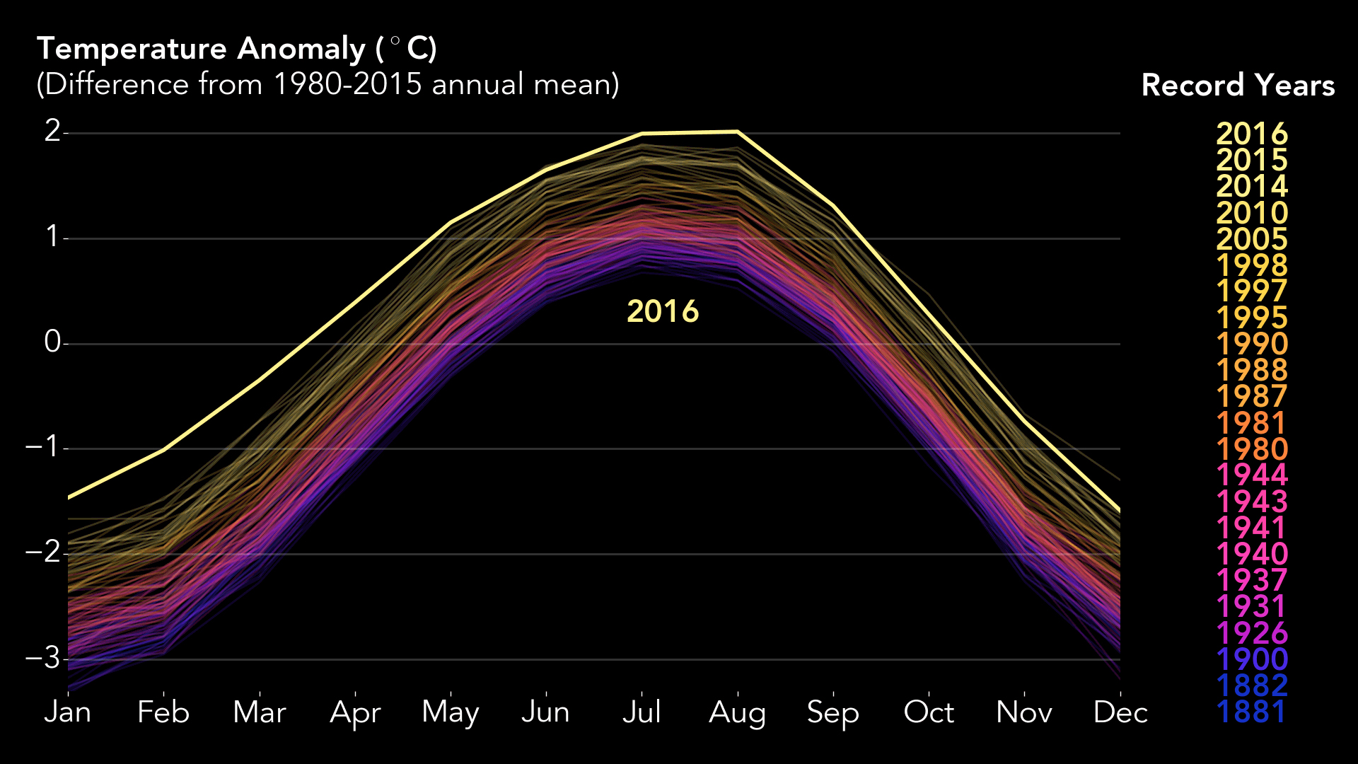 The planet’s long-term warming trend is seen in this chart of every year’s annual temperature cycle from 1880 to the present, compared to the average temperature from 1880 to 2015. Record warm years are listed in the column on the right. Credits: NASA/Joshua Stevens, Earth Observatory